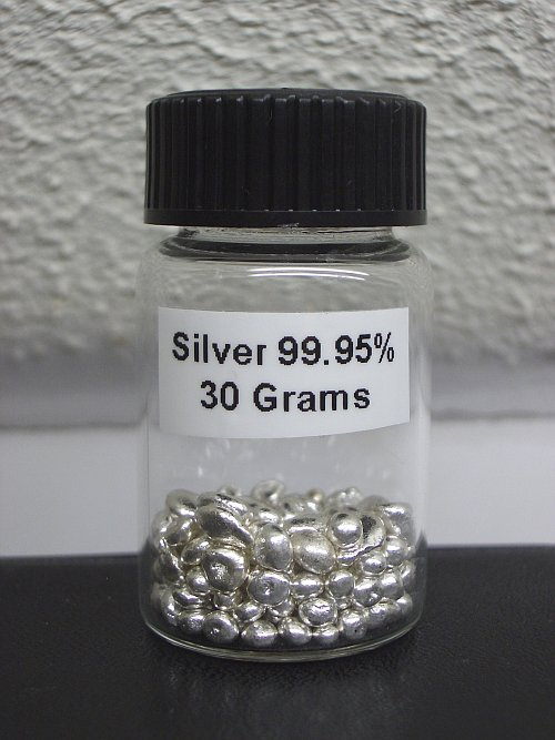 Silver pieces